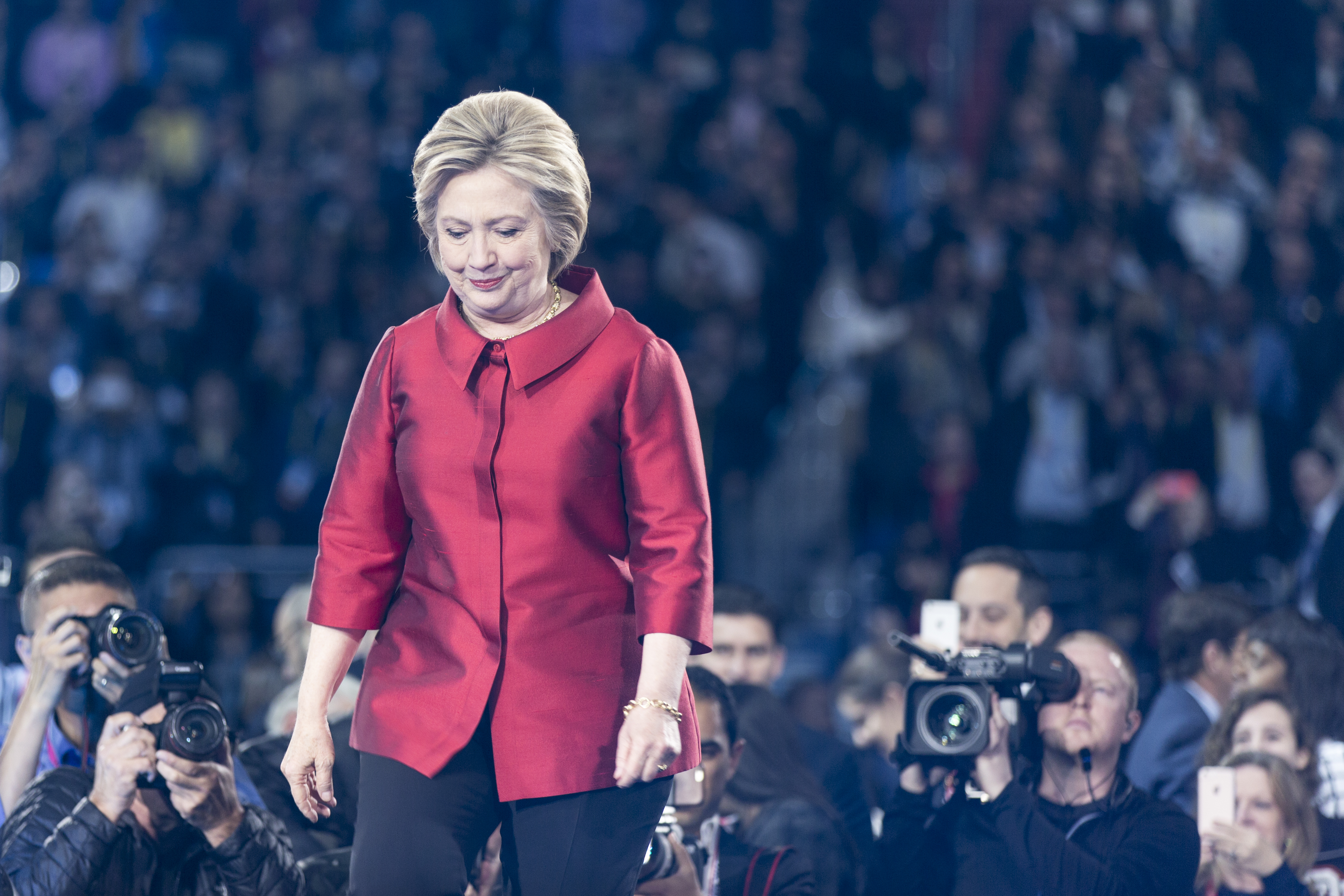 Hillary Clinton arriving on stage at the AIPAC Policy Conference in Washington DC 2016